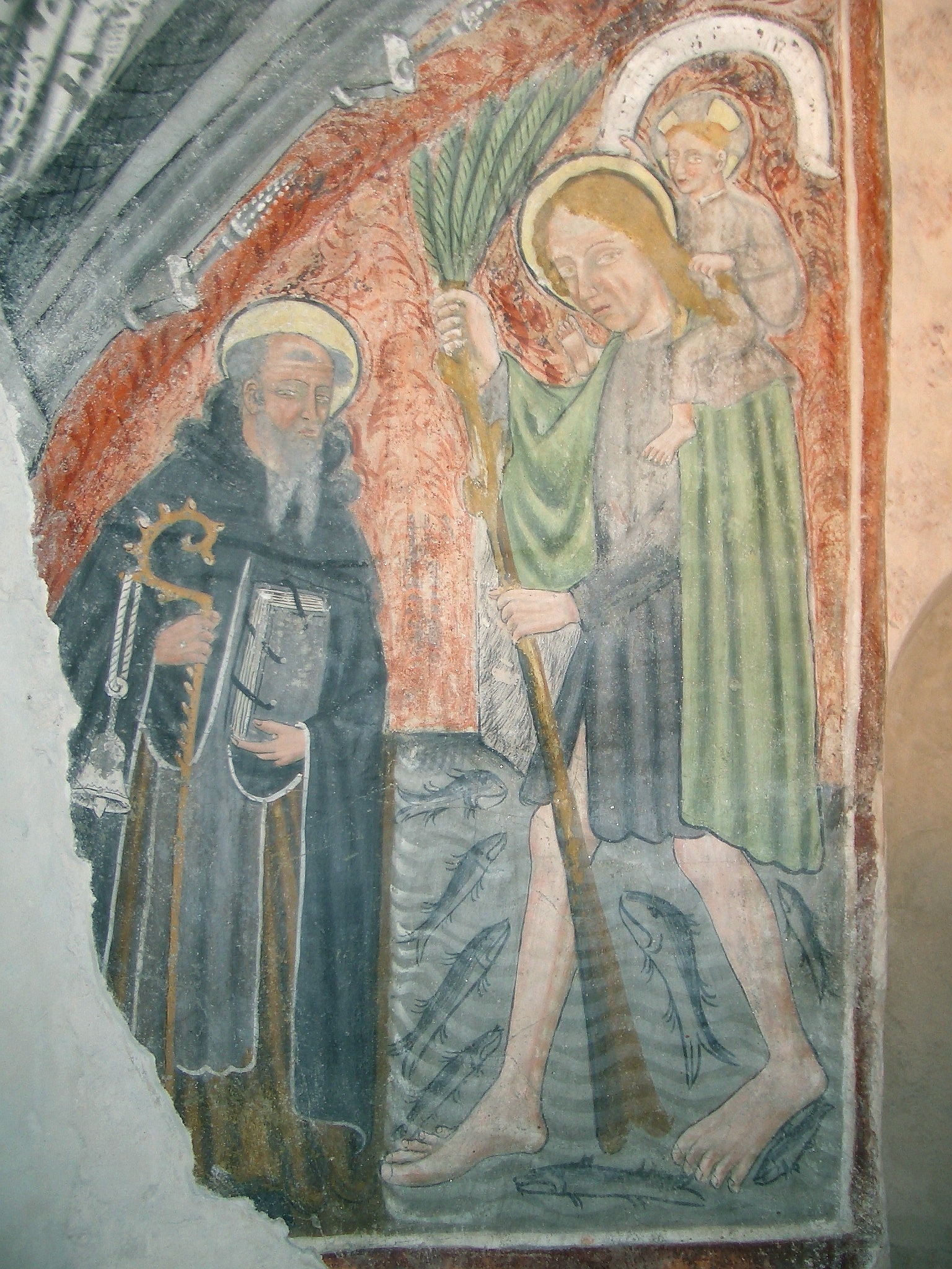 Giacomino di Ivrea, Saint Christopher and St. Anthony Abbot, fresco of the Cathedral crypt, ca. 1426, Ivrea, Duomo